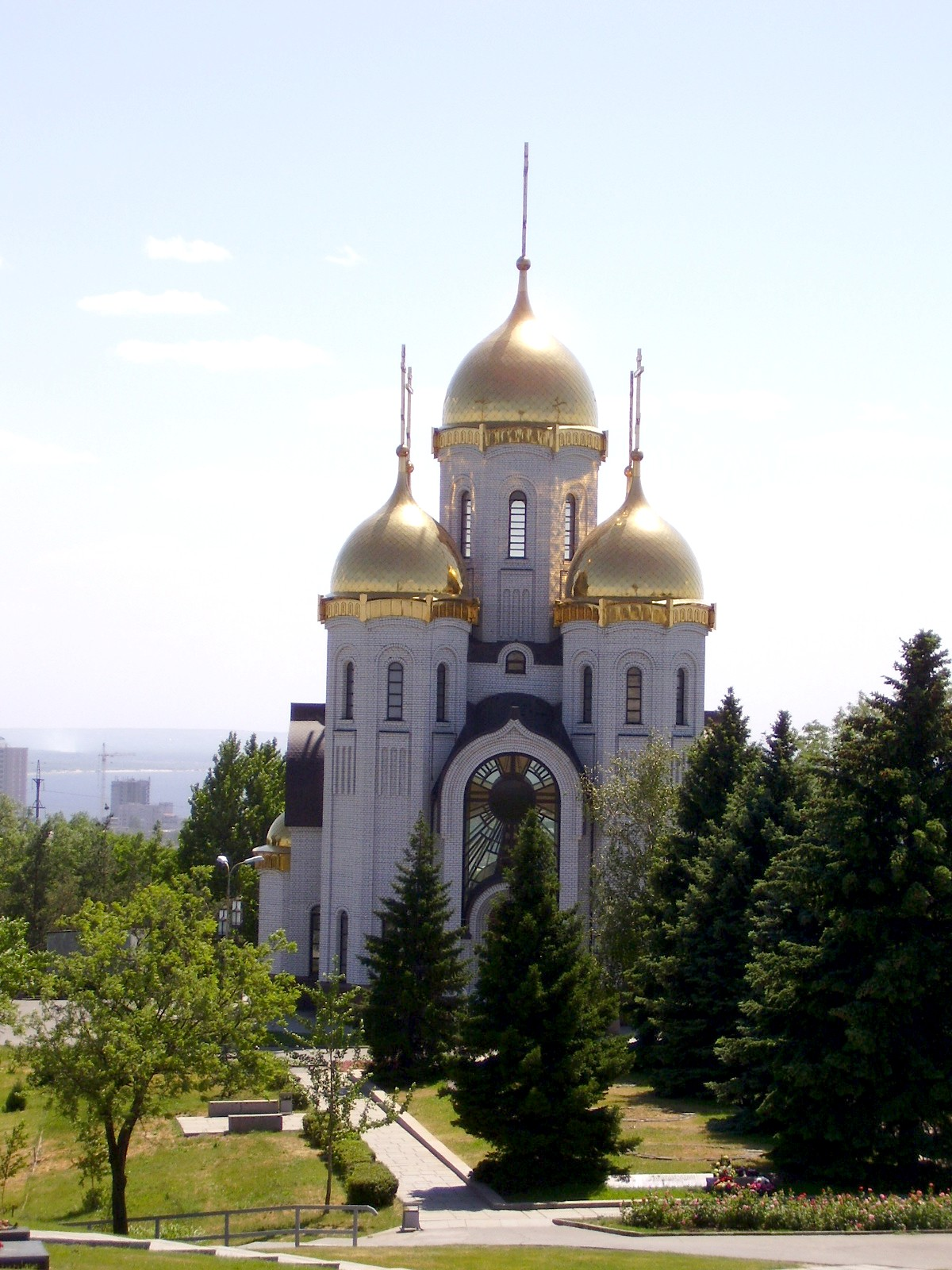 Volgograd memorial area.